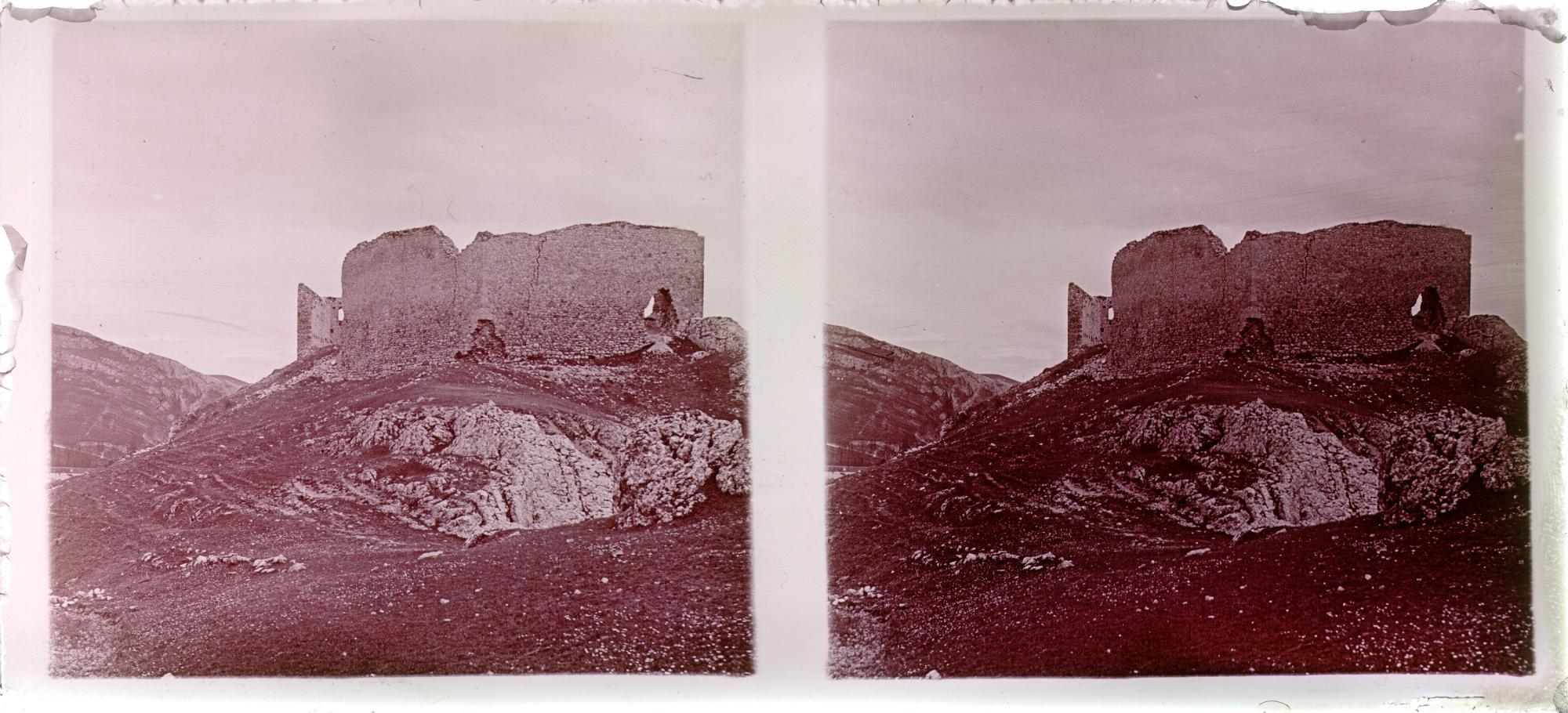 Ubierna Castle, circa 1925. Stereoscopic photograph taken by Eustasio Villanueva. Glass plate. Municipality of Merindad Rio Ubierna. Province of Burgos, Spain. Much of its stones were reused in the twentieth century in other buildings in the town of Ubierna.